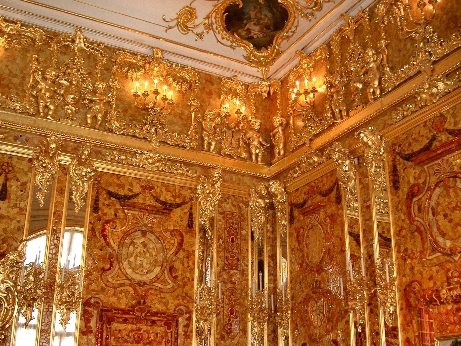 Pushkin (Russia), Amber room of the Catherine Palace